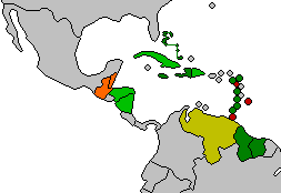 Map of the Petrocaribe members and Venezuela Venezuela Petrocaribe members and CARICOM members Petrocaribe members not part of CARICOM CARICOM members not part of Petrocaribe